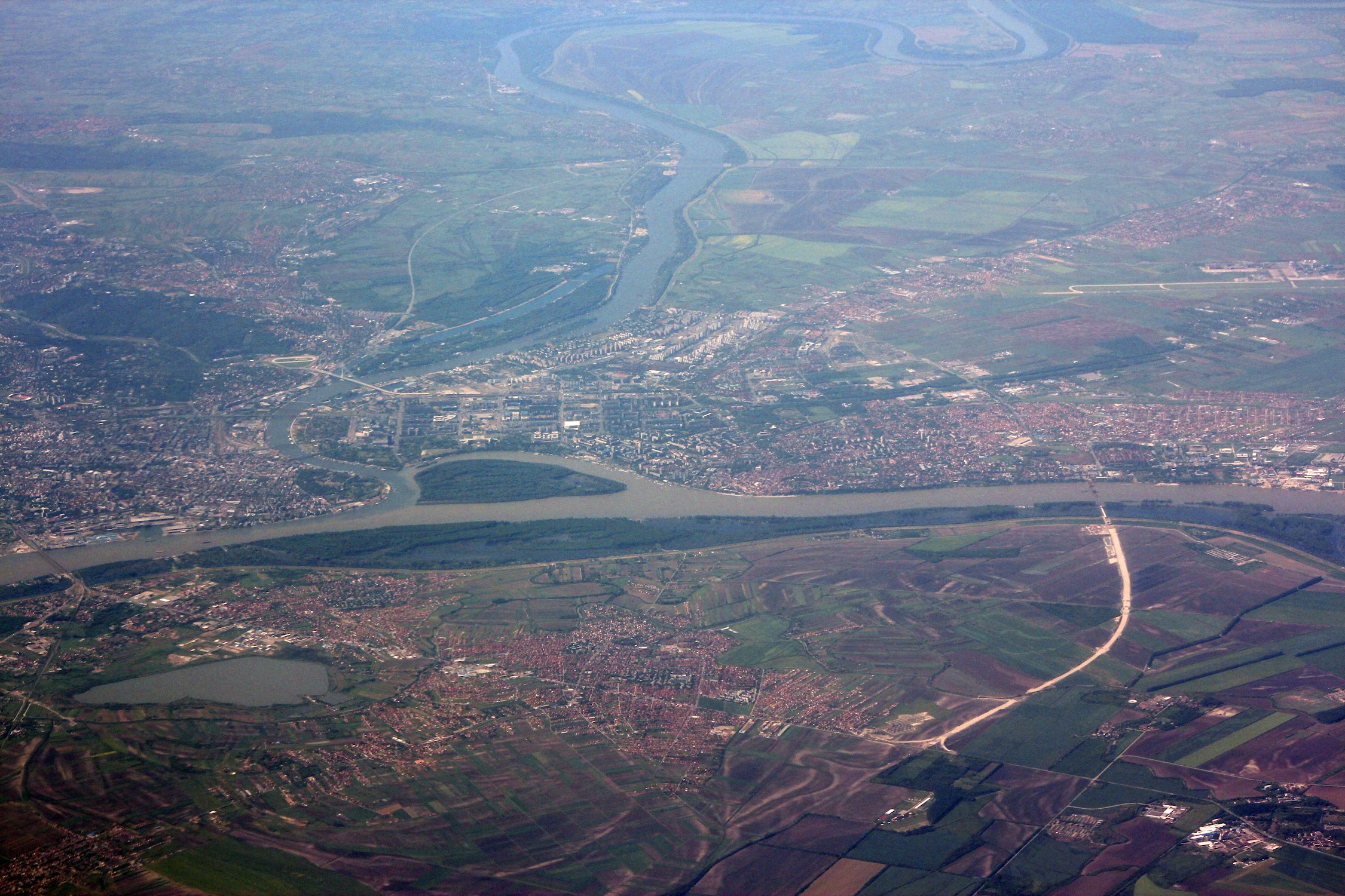 Belgrade and Zemun, Serbia. View with Sava River confluence with Danube.